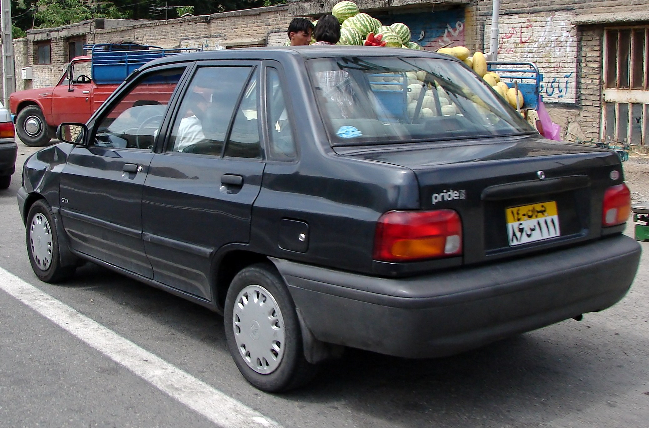 Snapshot from Tehran, a SAIPA built Kia Pride in front of a Zamyad Z24 (Nissan Junior)